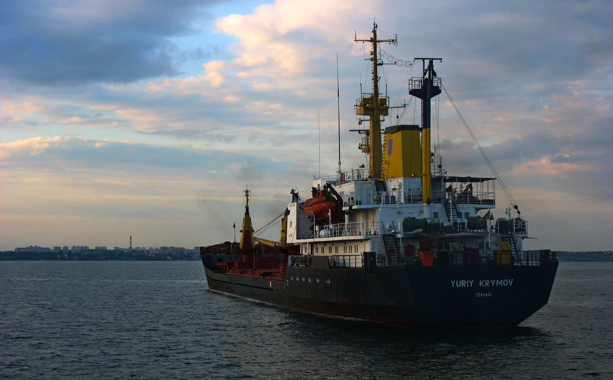 m/v "Yuriy Krymov"